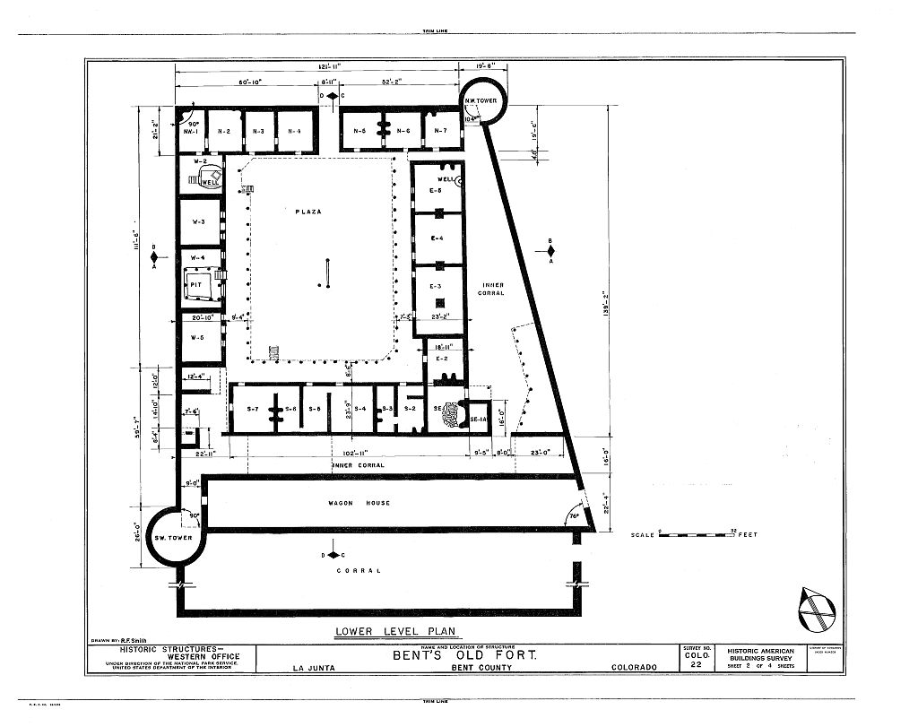 Bent's Old Fort, Lower Level Plan. HABS COLO,6-LAJUNTA County